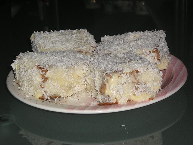 Snowball cake